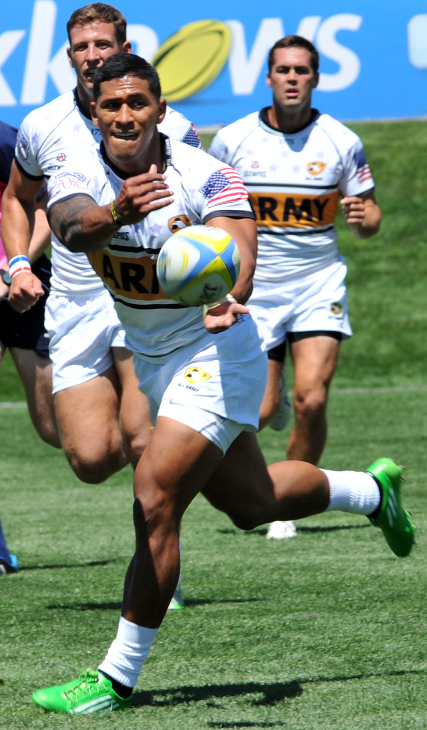 U.S. Army World Class Athlete Program 1st Lt. Ben Leatigaga passes the ball during the 2015 Armed Forces Rugby Championships at Infinity Park in Glendale, Colorado. WCAP teammates 1st Lt. William Holder and Capt. Andrew Locke are trailing the play. Leatigaga and Holder are two of 23 players on the USA men's Eagles Sevens roster, from which 12 will be selected for the 2016 U.S. Olympic rugby sevens squad that will compete in Rio de Janeiro. U.S. Army IMCOM photo by Tim Hipps, IMCOM Public Affairs